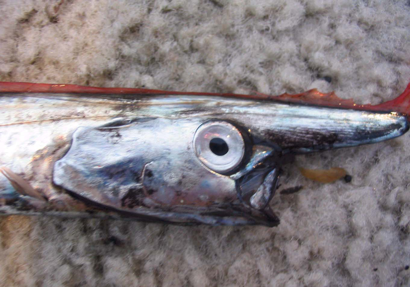 Head of a unicorn crestfish (Eumecichthys fiski)